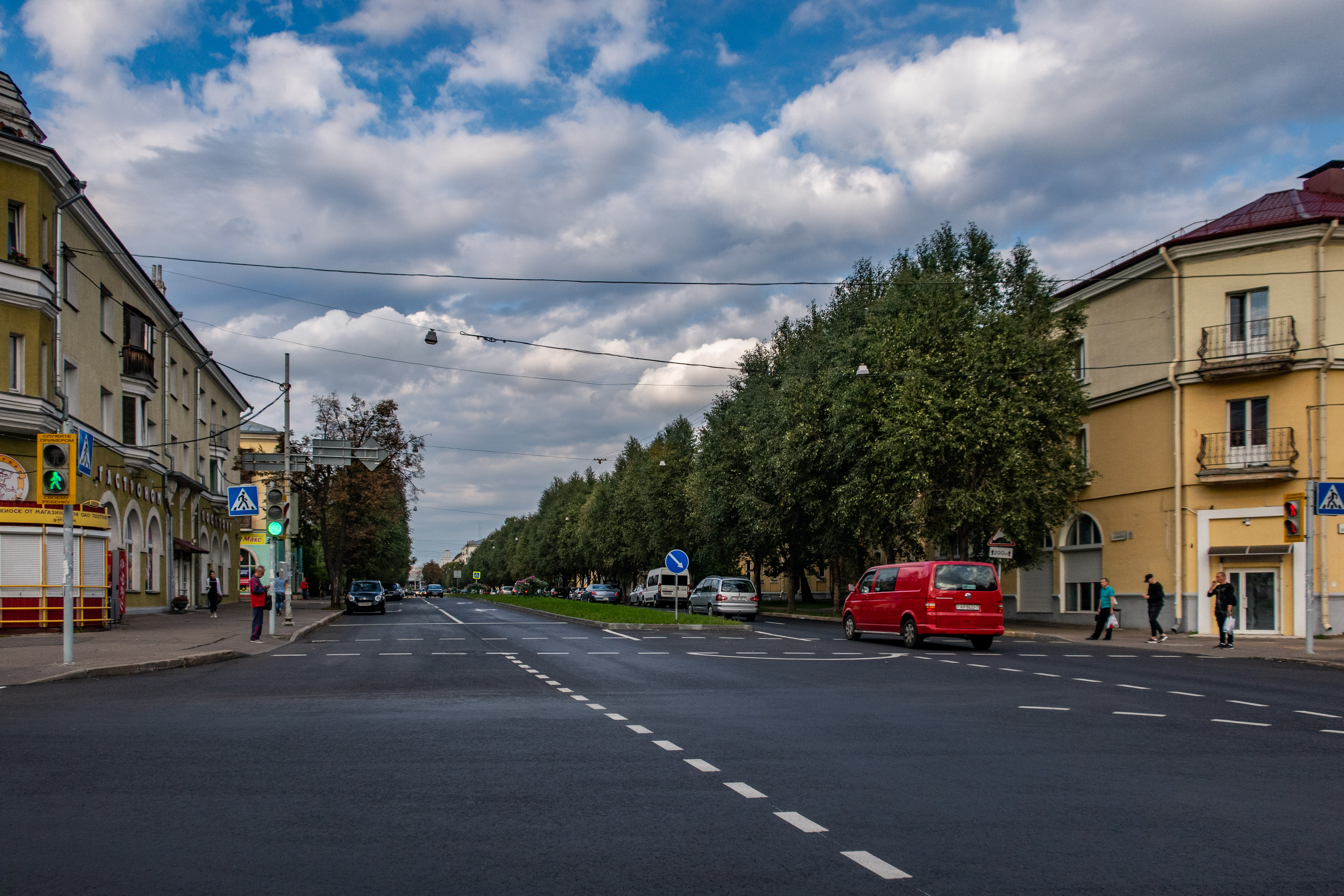 Alieha Kašavoha street. Minsk, Belarus